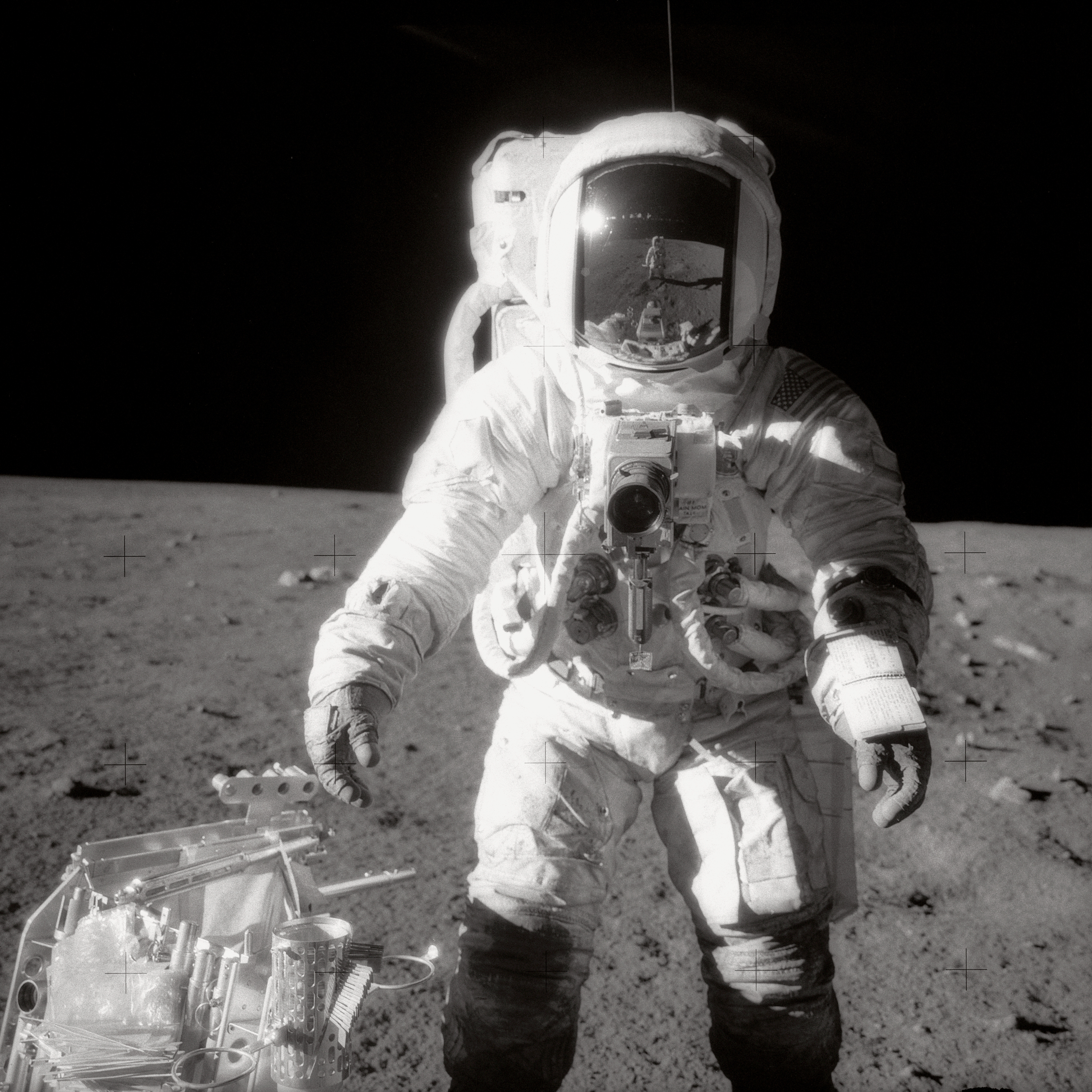 Astronaut Alan L. Bean, Lunar Module pilot, pauses near a tool carrier during extravehicular activity (EVA) on the Moon's surface. Commander Charles Conrad Jr., who took the black and white photo, is reflected in Bean's helmet visor.